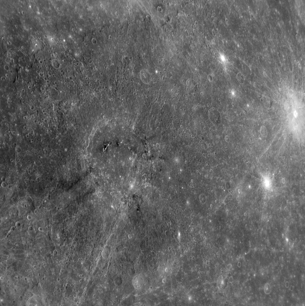 When Mariner 10 flew by Mercury in 1974, morning sunlight was just striking Mozart crater so that most of the feature was hidden in darkness near the terminator. During MESSENGER's Mercury flyby on January 14, 2008, Mozart was in full sunlight, allowing the crater to be seen in detail for the first time, as shown in this image snapped by the Narrow Angle Camera (NAC) of the Mercury Dual Imaging System (MDIS). Named in honor of the classical composer Wolfgang Amadeus Mozart, Mozart is the large crater near the center of the image. The crater’s diameter is about 225 kilometers (140 miles). The arc of dark hills visible on the crater's floor probably represents remnants of a central peak ring, similar to that shown in the January 30 image release. Clues to the origin of the dark material on the peak ring and the curious dark streaks radiating outward from the crater will be provided by 11-color image data collected by the spacecraft’s Wide Angle Camera (WAC). A close inspection of the area around Mozart crater shows many long chains of secondary craters, formed by impact of material thrown out during the formation of the main crater. Mozart crater is located just south of the Caloris basin and can be identified in the false color image previously released. Members of the MESSENGER Science Team are currently studying and characterizing the small craters on Mercury in order to provide new insight into the cratering process as it operates on the different planets in the Solar System.